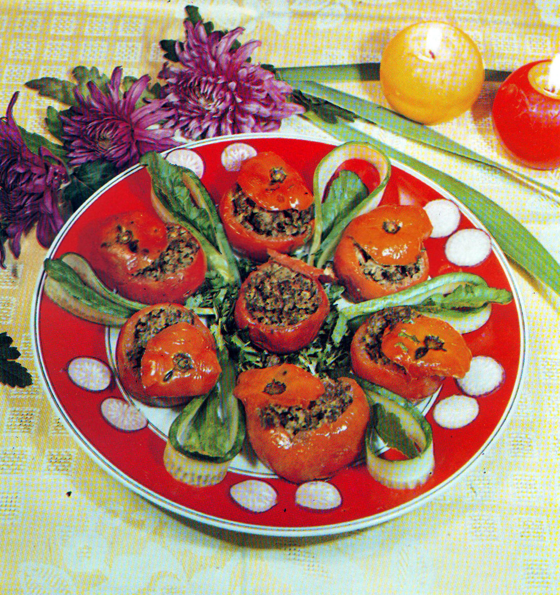 Cuisine of Azerbaijan: Stuffed tomatoes